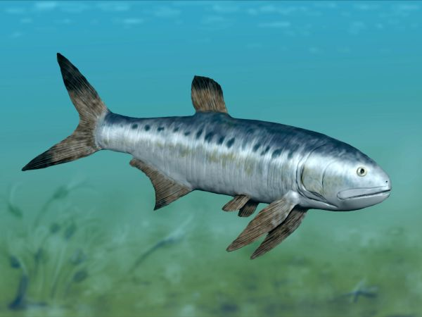 Sauropsis